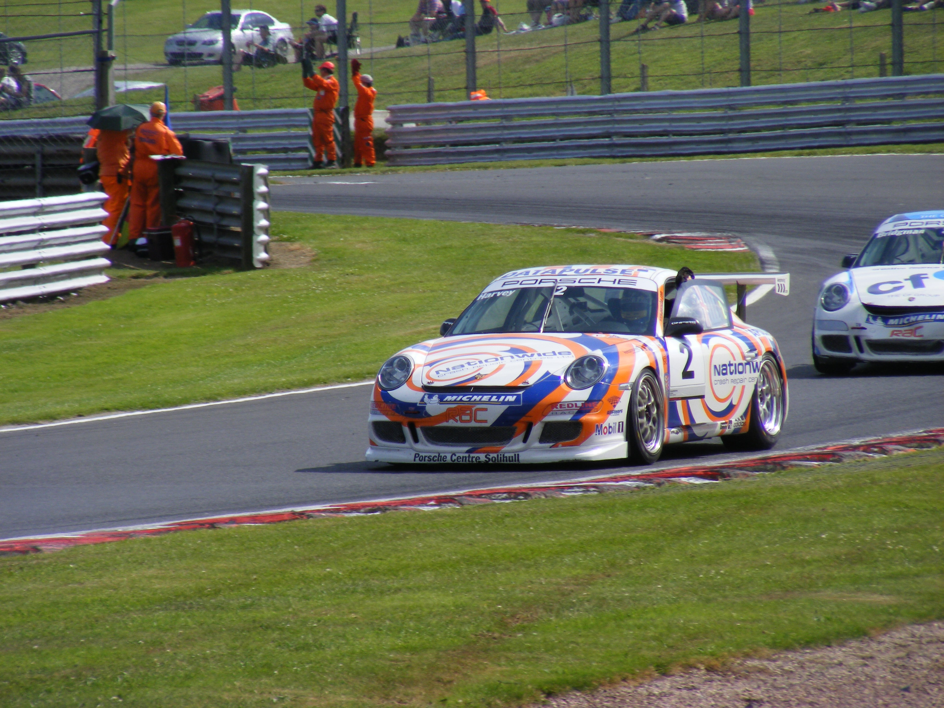 Tim Harvey waves to the Oulton Park crowd after taking second place in the first race.